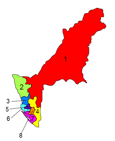 From 2020 election, Kaohsiung legislative seats will be reduced to 8 from 9.